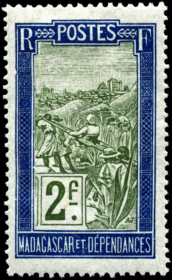 Madagascar, 2fr stamp of 1908